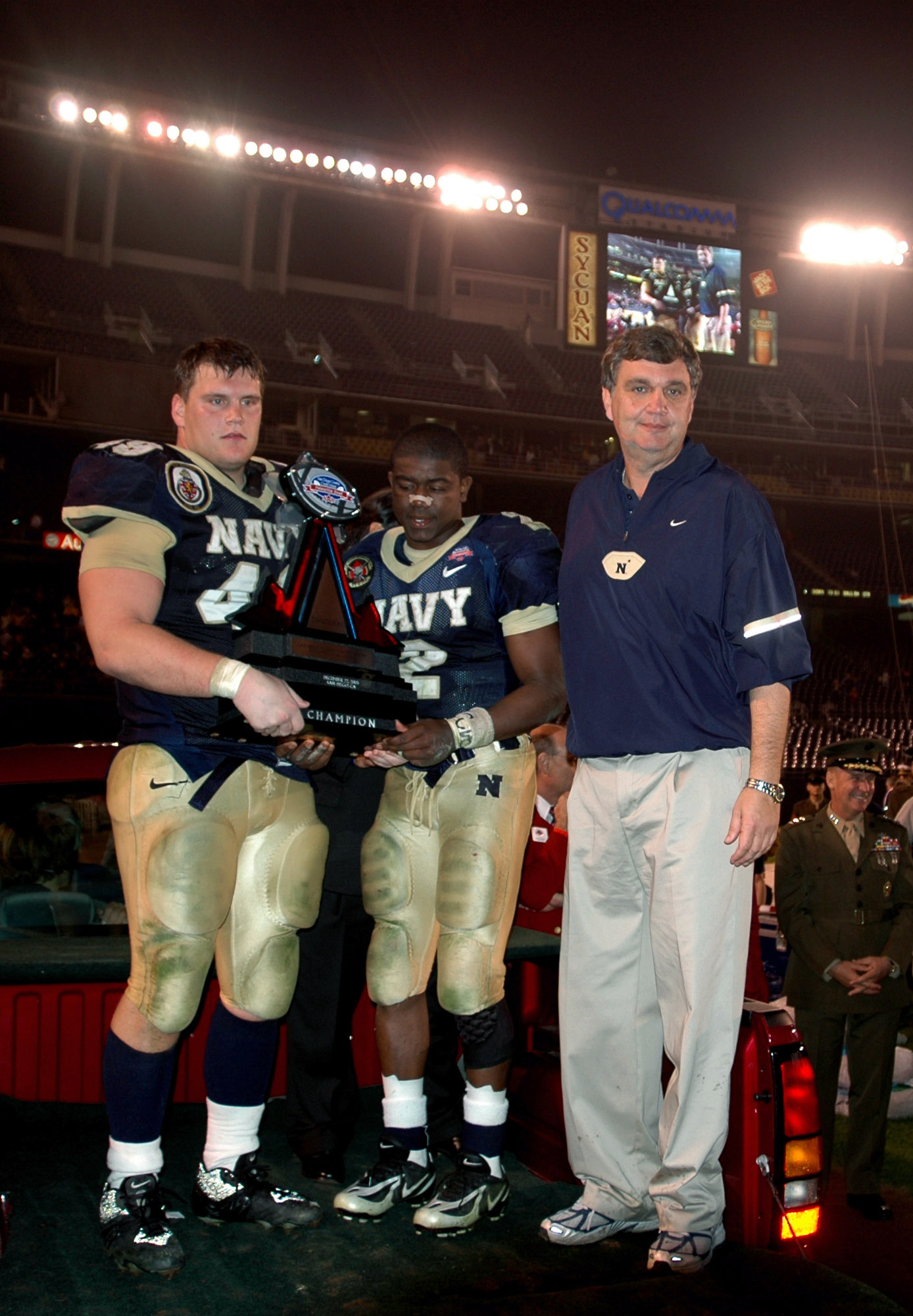 U.S. Naval Academy defensive end (DE) Jeremy Chase, left, Quarterback (QB) Lamar Owens, center, and head football coach Paul Johnson receive the Poinsettia Bowl trophy after defeating Colorado State 51-30. The college teams played in the inaugural Poinsettia Bowl at Qualcomm Stadium in San Diego.